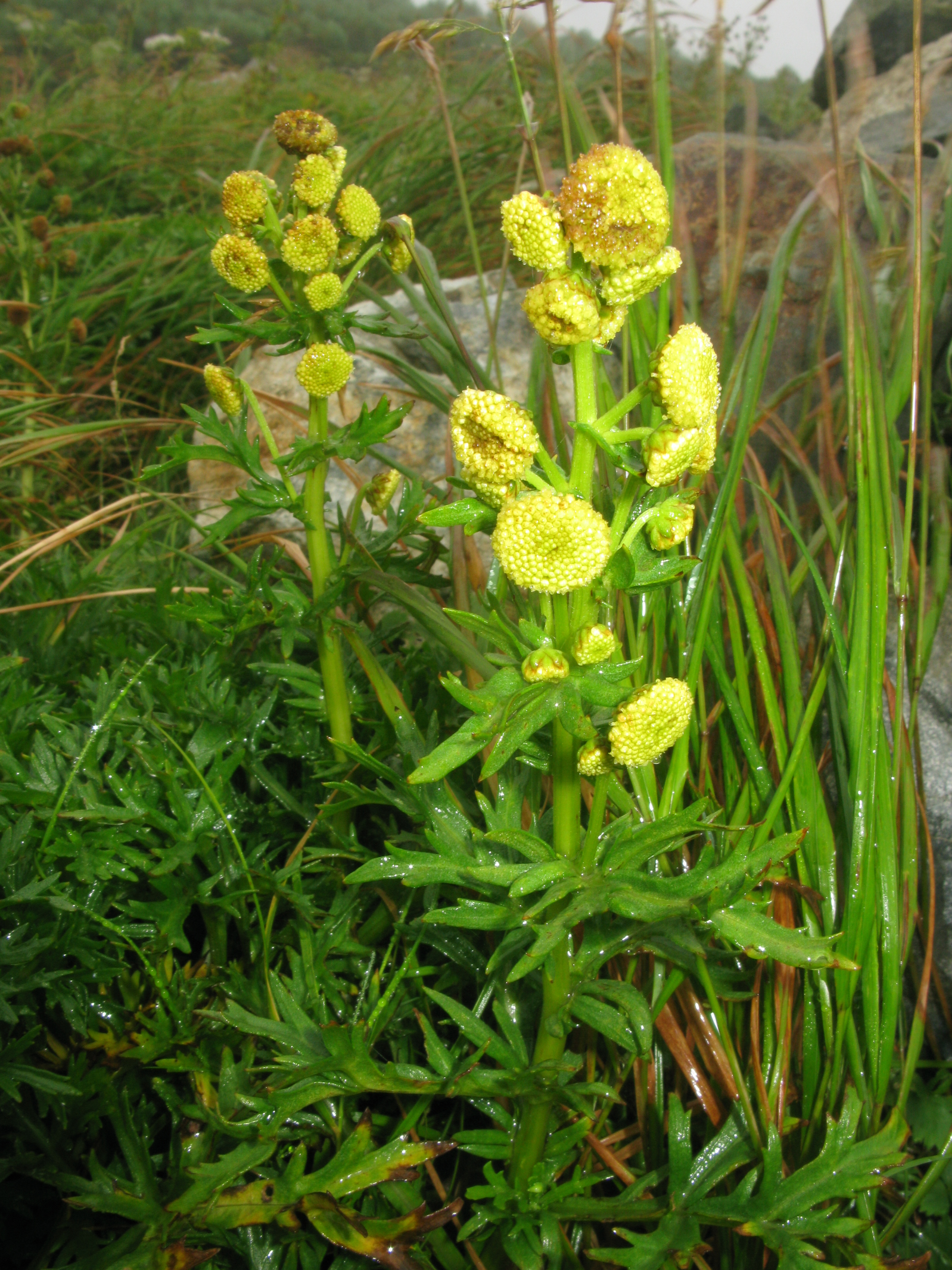 Artemisia arctica subsp. sachalinensis, Mount Hayachine, Iwate pref., Japan